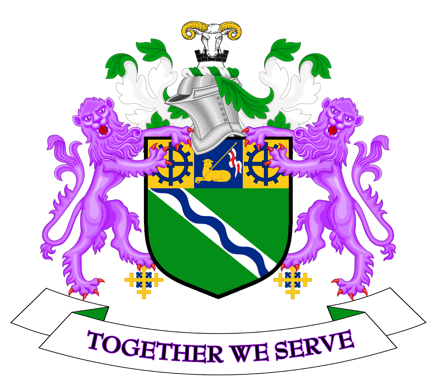 The Coat of arms of Kirklees Metropolitan Borough Council, the local government authority of the Metropolitan Borough of Kirklees, in West Yorkshire, England. The blazon is:ARMS: Vert on a Bend Argent a Bendlet wavy Azure on a Chief Or a Pale between two Cog-Wheels Azure on the Pale a Pascal Lamb supporting a Staff Or flying therefrom a forked Pennon Argent charged with a Cross Gules.CREST: On a Wreath of the Colours a Ram's Head affronty couped Argent armed Or gorged with a Mural Crown Sable masoned Argent.SUPPORTERS: On either side a Lion rampant guardant Purpure resting the inner hind leg on a Cross Crosslet Or embellished in each of the four angles with a Fleur de Lis Azure.